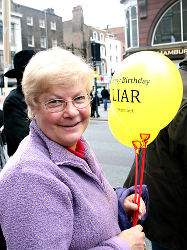 Bonnie Woods at Tottenham Court Road.